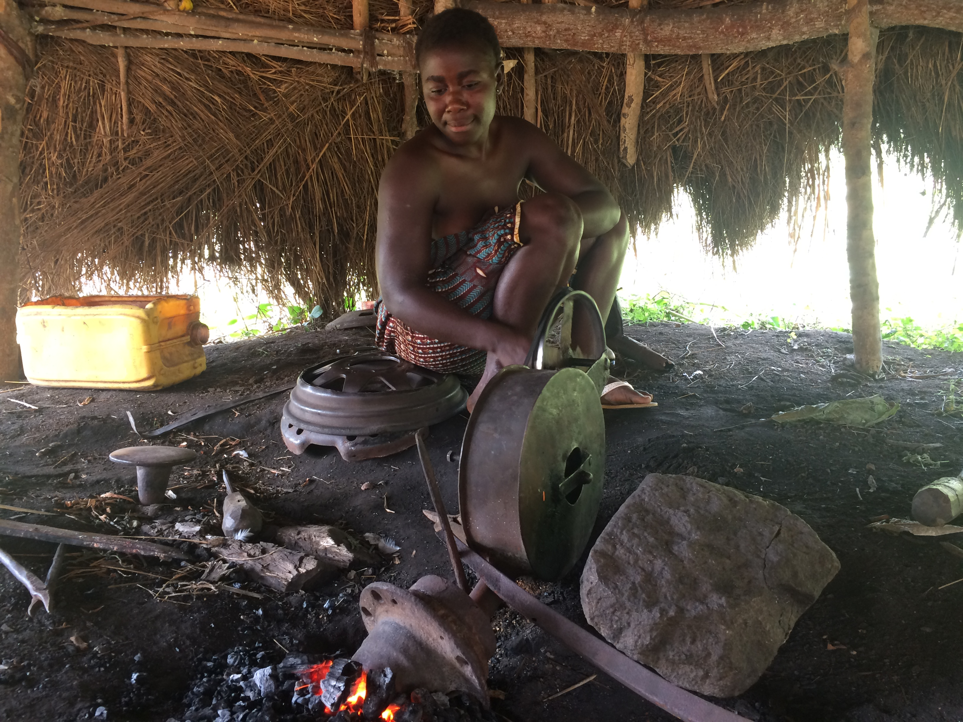 Rare Female Blacksmith working at her shop This is an image of "African people at work" from Sierra Leone